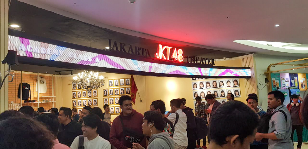 JKT48 Theater on 28 February 2020Bahasa Indonesia: Teater JKT48 pada tanggal 28 Februari 2020